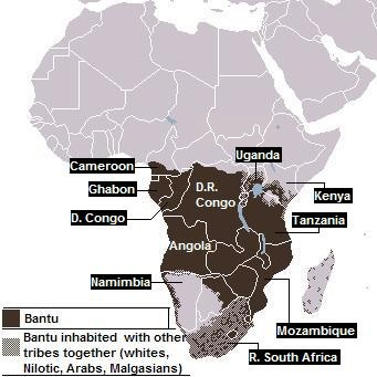 Bantu blacks areas in Africa